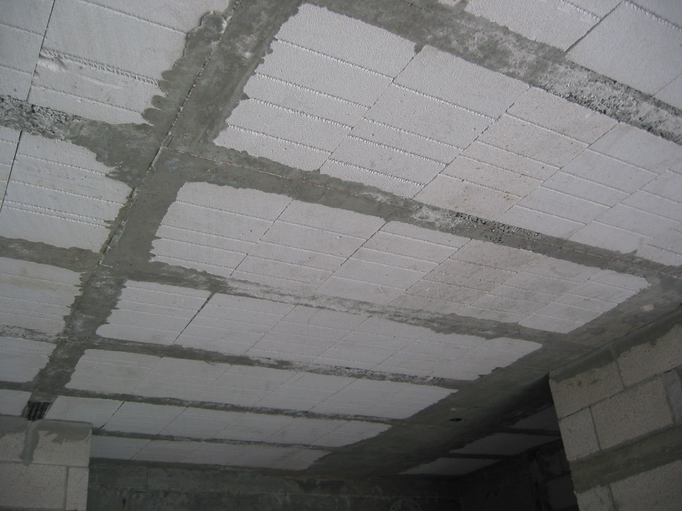 Beam Ceiling